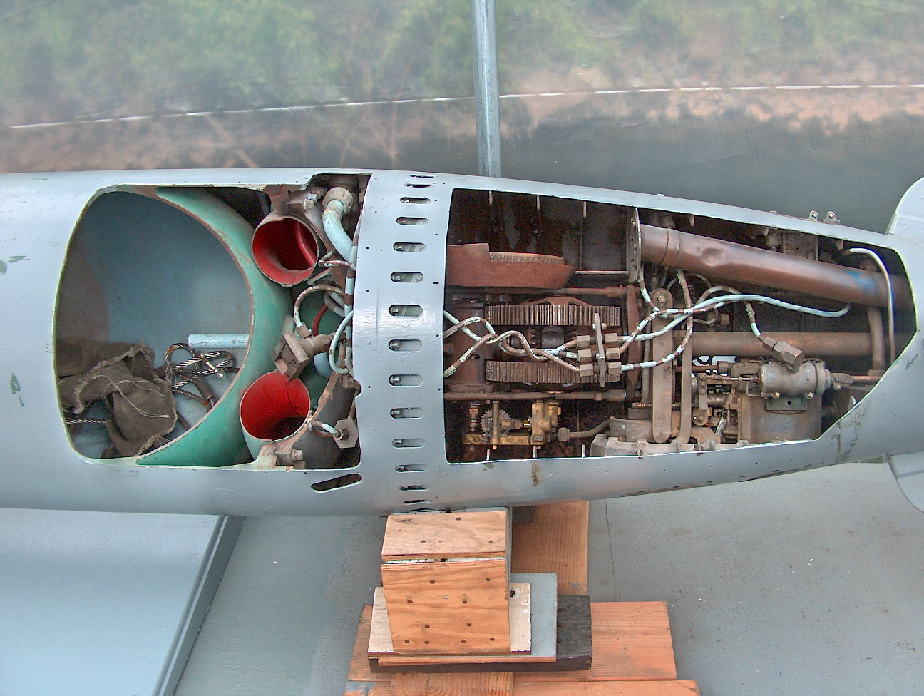 Propulsion system of WWII torpedo Mark 13 used late in war by PT Boats. This one is with a restored PT-658 in Portland, Oregon USA.